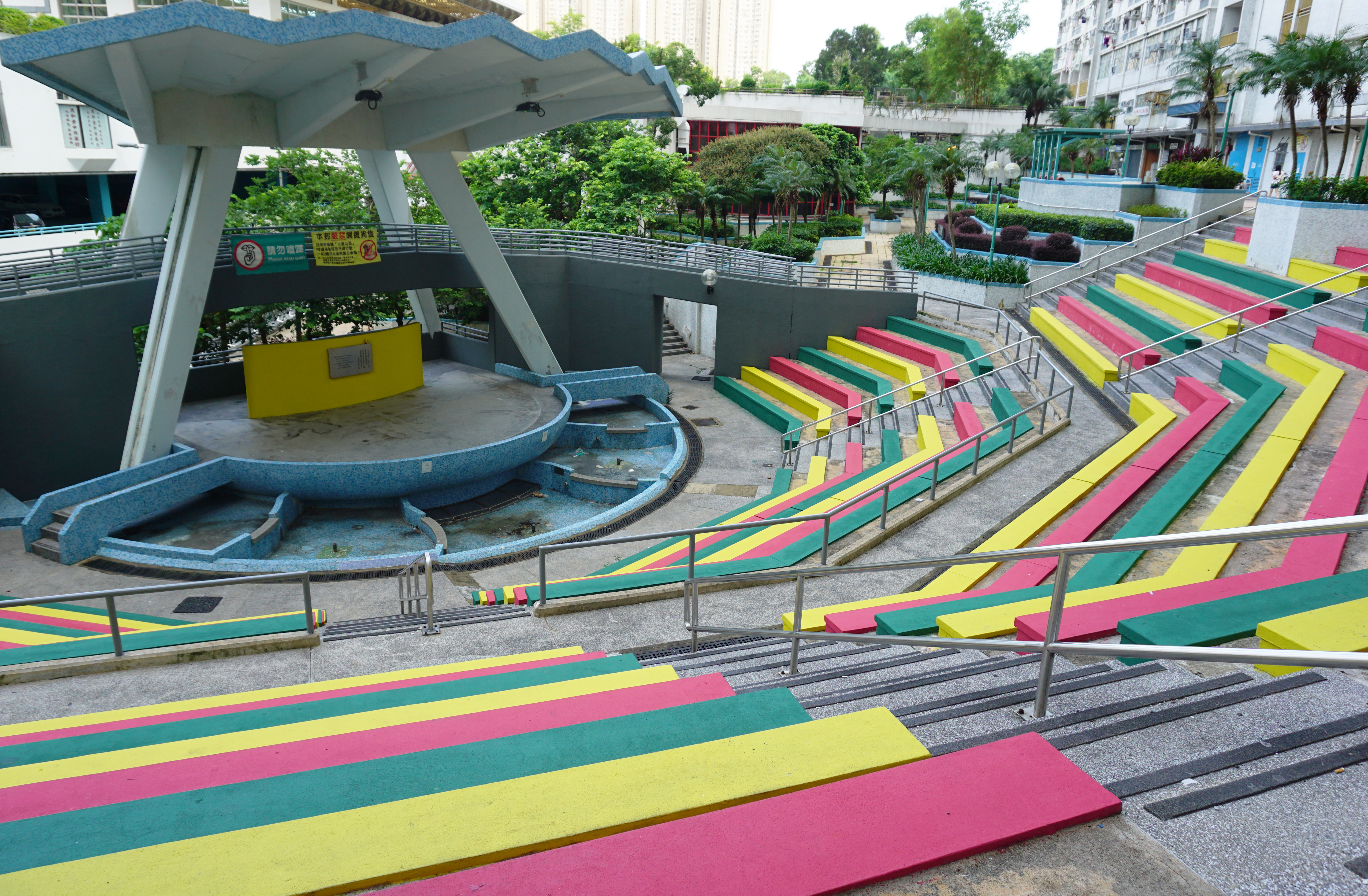 Tsui Lam Estate in Tseung Kwan O, Hong Kong.